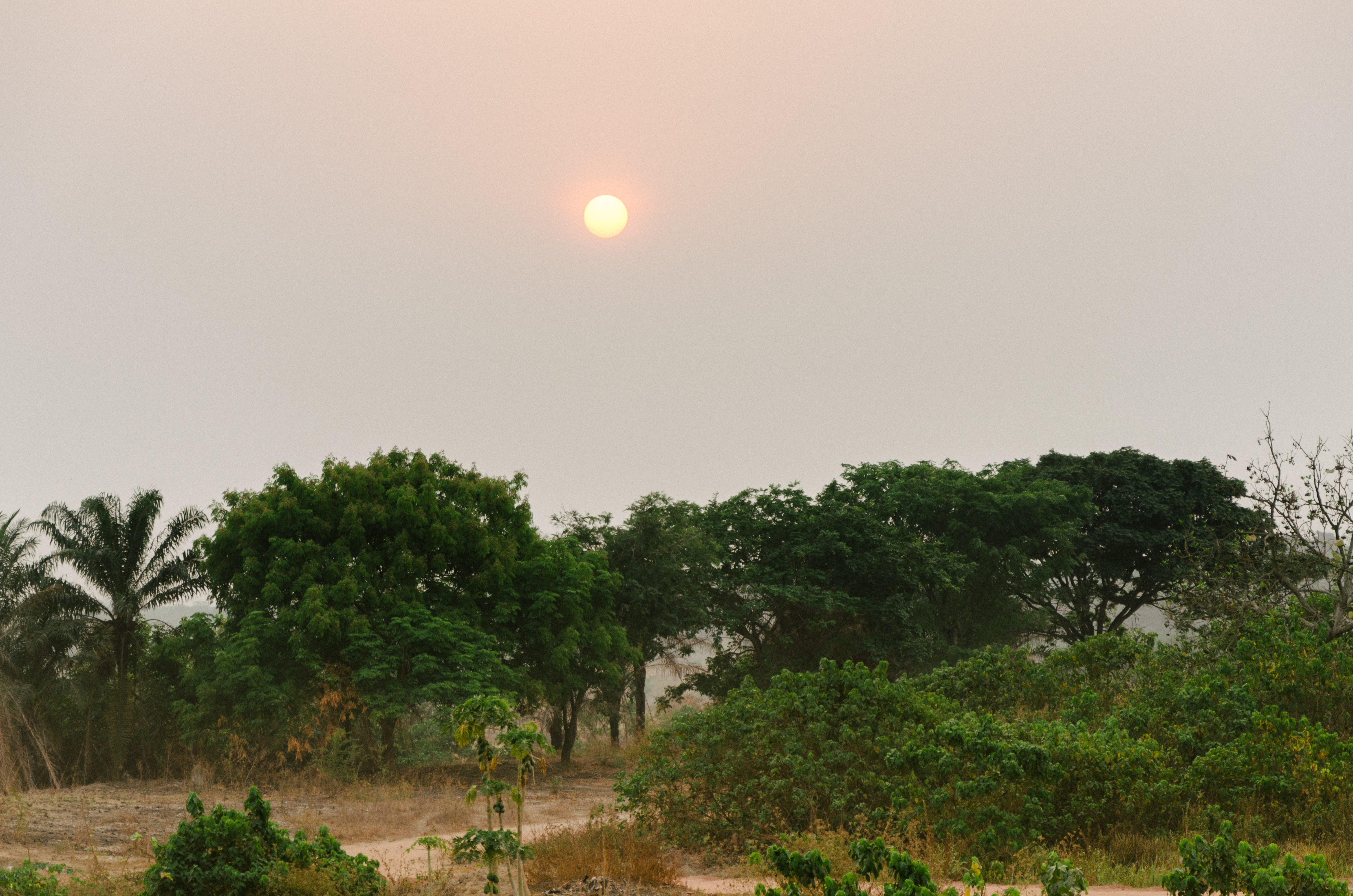 Nkanu West, Enugu